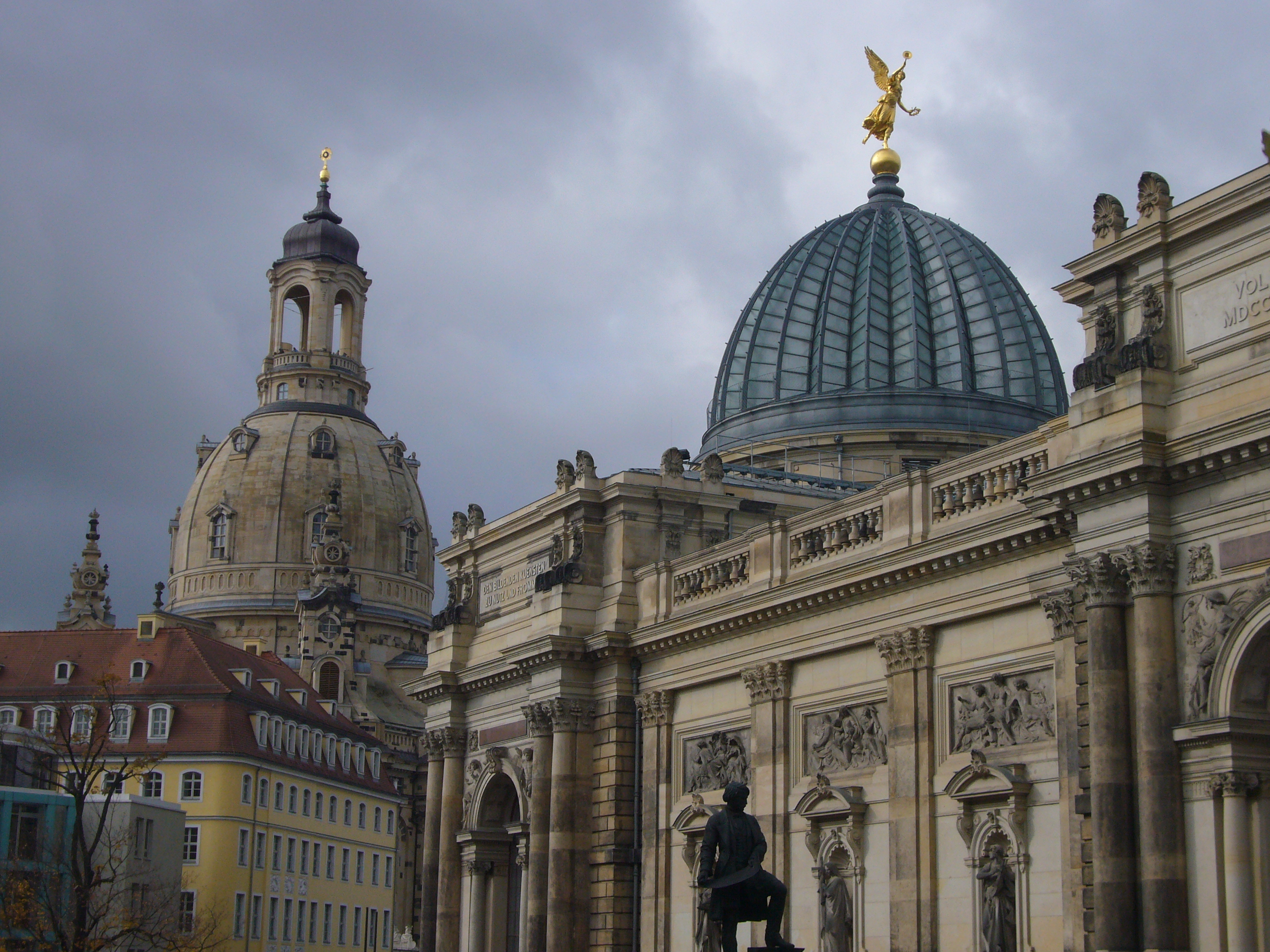 Partial skyline of Dresden, Germany, featuring the Frauenkirche and Kunstakademie domes with a stormy sky in the background.